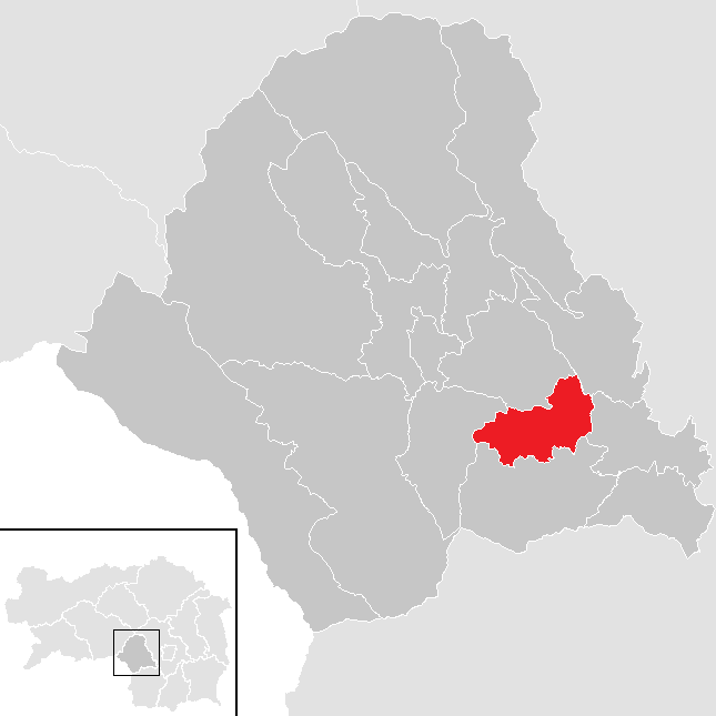 district Voitsberg